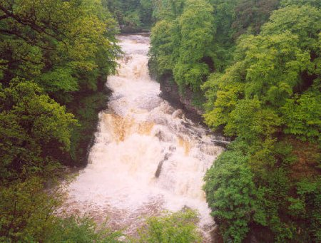 The Corra Linn in full spate, a sight not seen often in the year, usually only when the dam at the power station at Bonnington Linn is open to let the full force of the river spill over the falls.